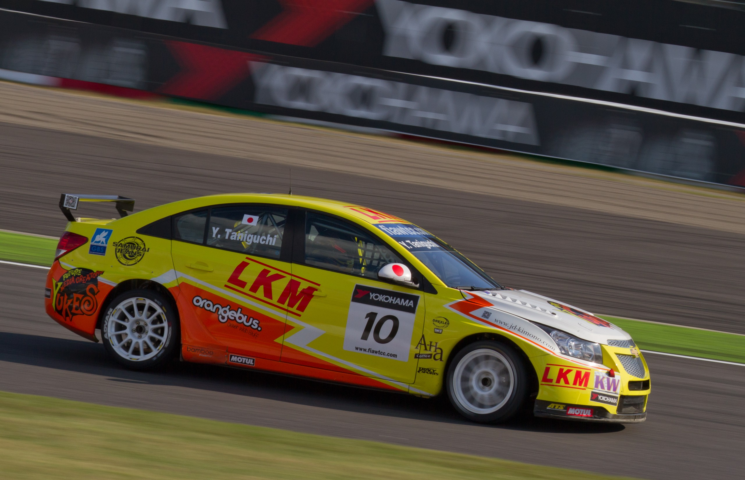 World Touring Car Championship 2011 Race of Japan - Race 1: Yukinori Taniguchi (Bamboo Engineering) during the reconnaissance lap.